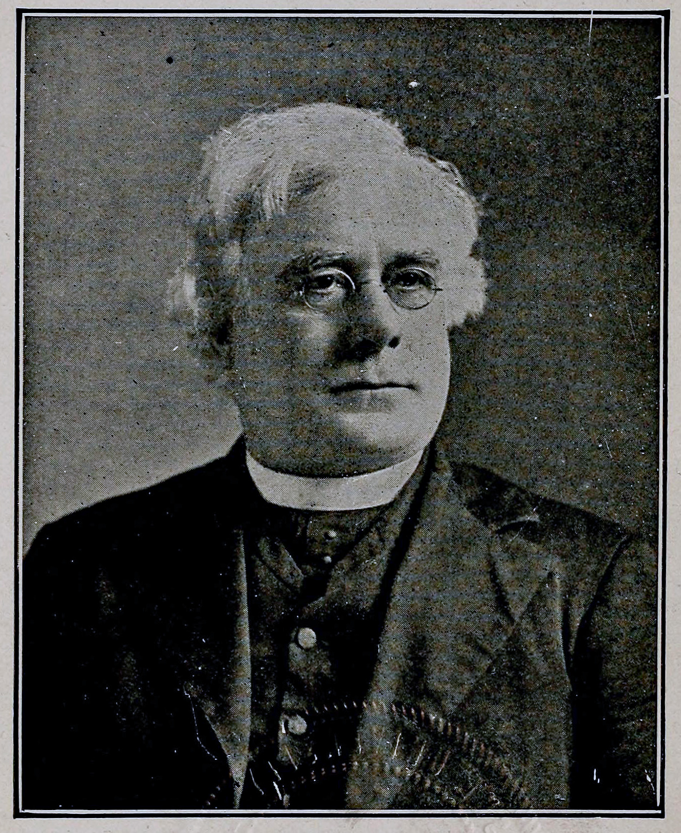 A 1914 photograph of Catholic priest and historian Andrew Arnold Lambing (1842–1918).